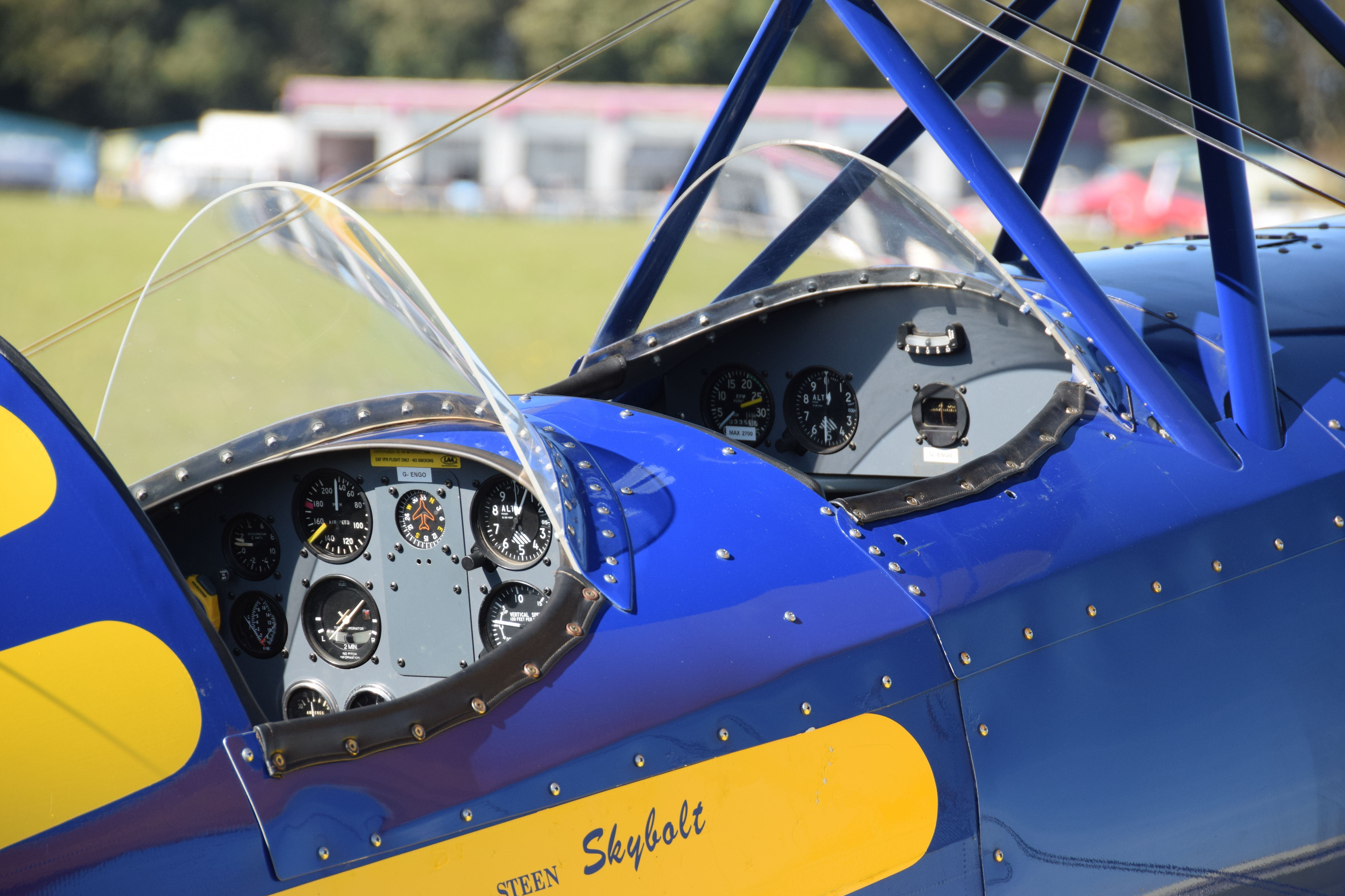 Steen Skybolt two-seat aerobatic biplane (G-ENGO) at the 2018 Cotswold Airport Revival Festival, Gloucestershire, England. Built 2007. The Skybolt prototype, designed in the USA by Lamar Steen, flew in 1970.